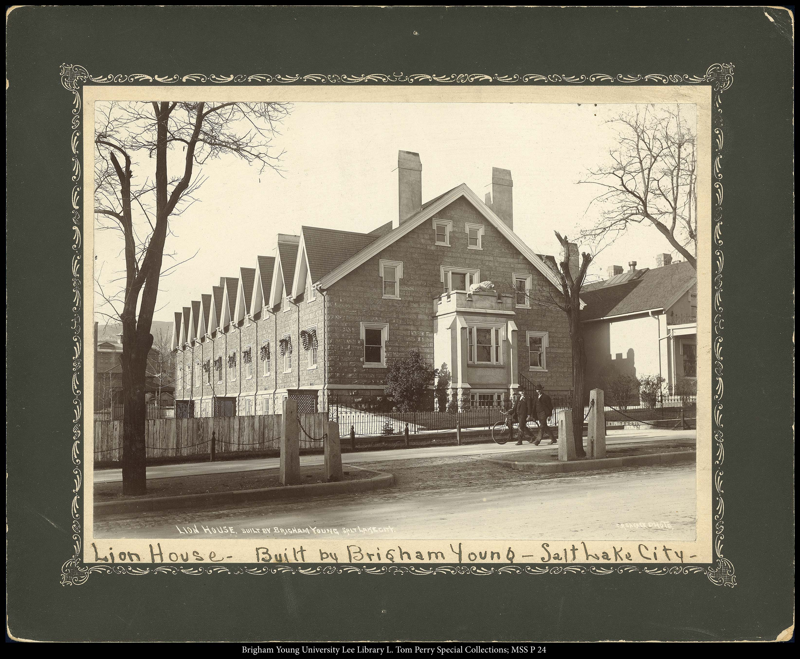 Two men and a bicycle in front of the Lion house.